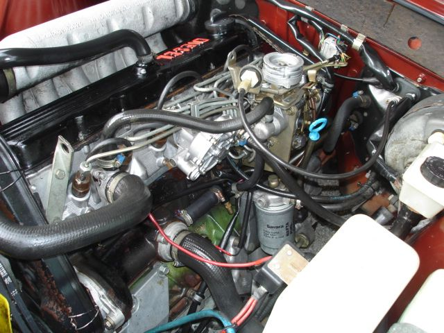 D24 inline-six diesel engine built by VW, installed in four-door Volvo 240